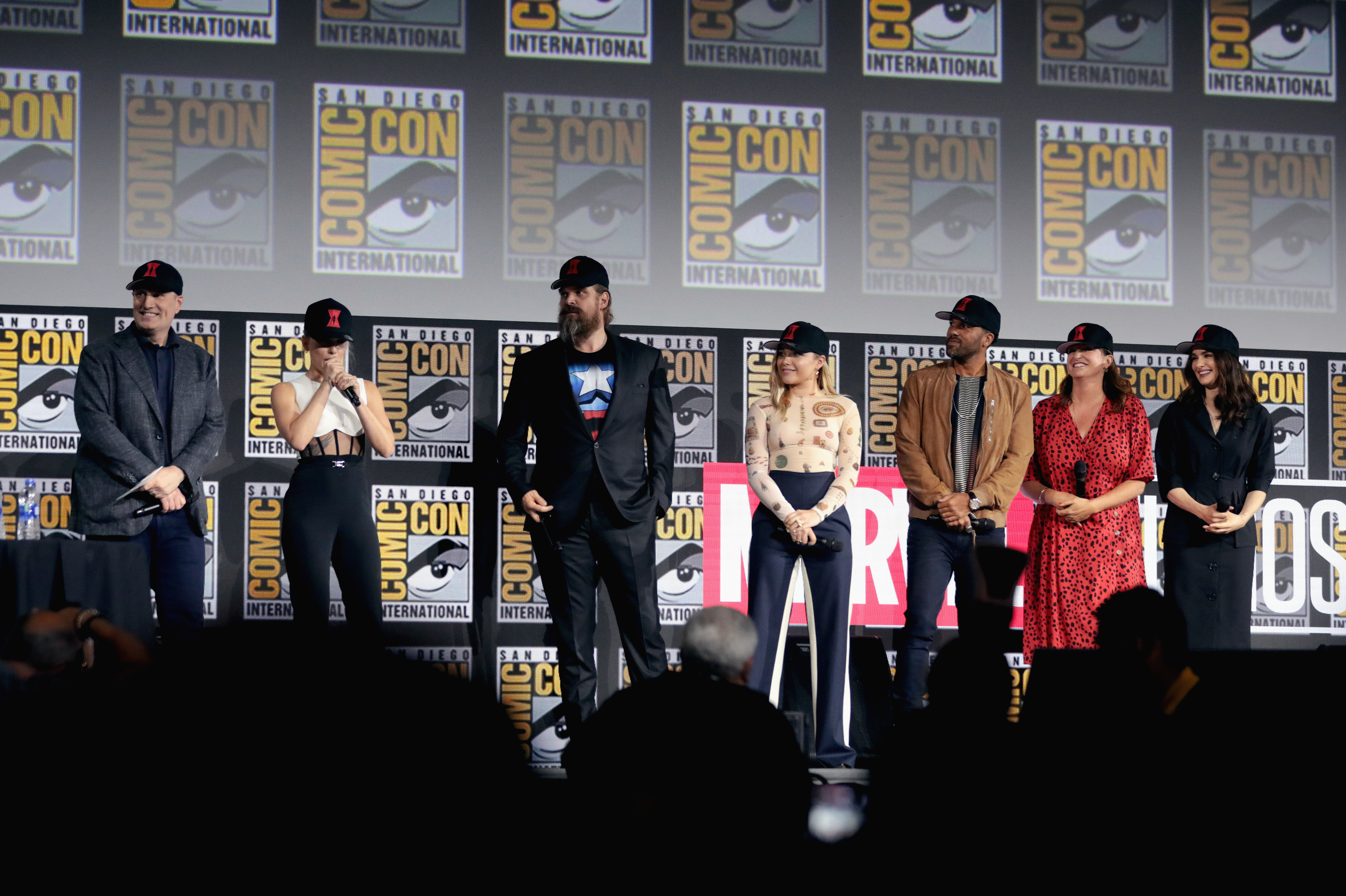 Kevin Feige, Scarlett Johansson, David Harbour, Florence Pugh, O. T. Fagbenle, Cate Shortland and Rachel Weisz speaking at the 2019 San Diego Comic Con International, for "Black Widow", at the San Diego Convention Center in San Diego, California.